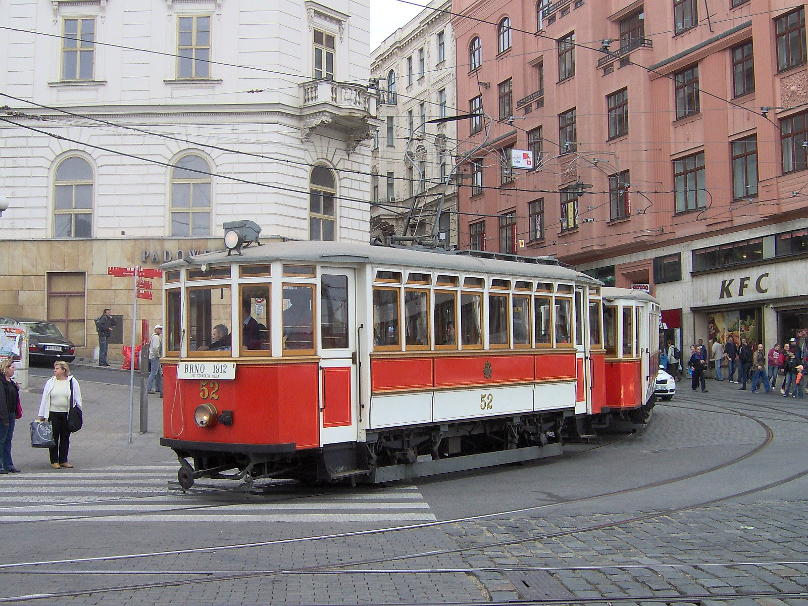 Historical tram No. 52 with trailer No. 205, 140 years of public transport in Brno, Czech Republic